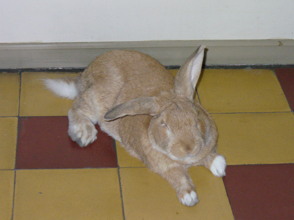 A relaxed Golden Palomino Rabbit (Lucas, two years old - from Medellin, COLOMBIA)